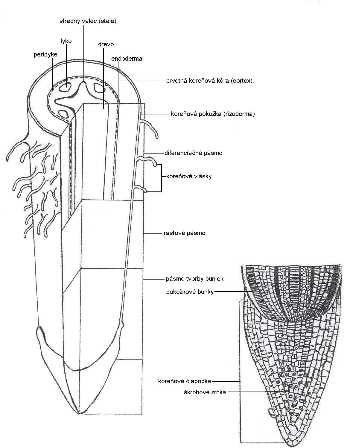 Anatomy roots